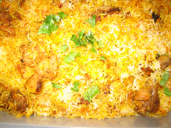 Prepared Thalassery Biriyani